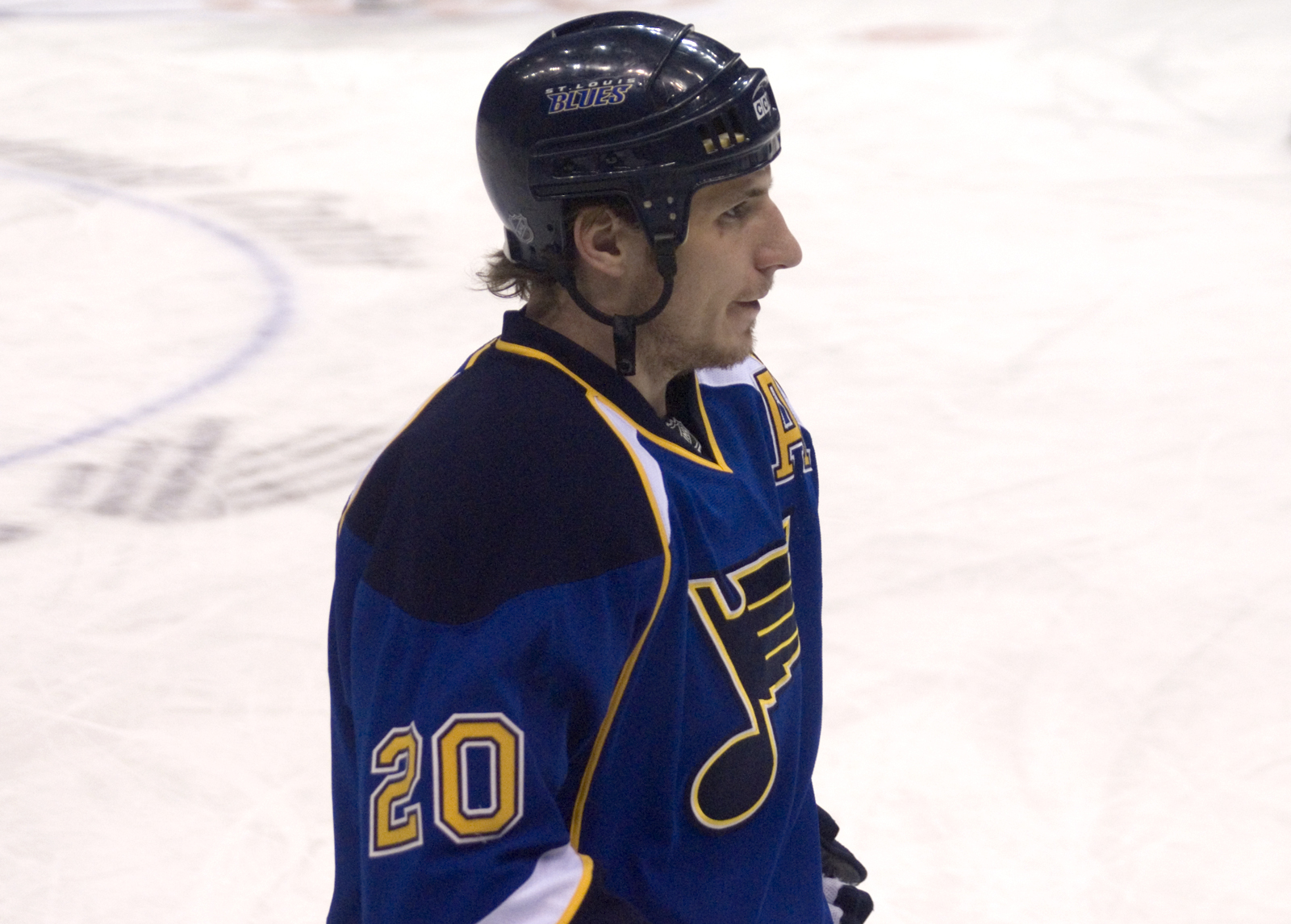 alex steen St. Louis Blues vs. Colorado Avalanche - National Hockey League - 2010–11 NHL season. Erik Johnson and Jay McClement returned for the first time to face their former team. The Avs won. Photo taken by Sarah Connors on February 22, 2011. This photo also appears in Sarah Connors Flickr set "Blues vs. Avs, 2/22/11" (Set of 86).